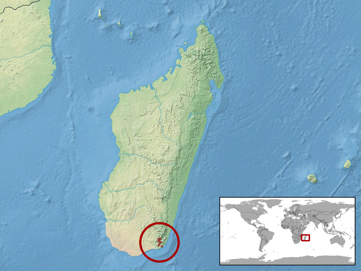 geographic distribution of Lygodactylus roavolana (Native: Madagascar)